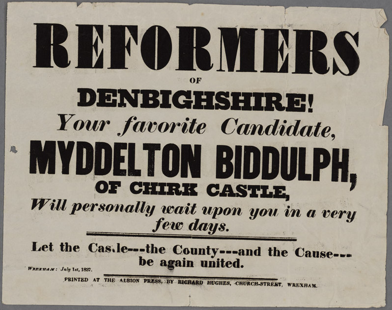 Reformers of Denbighshire! 1837